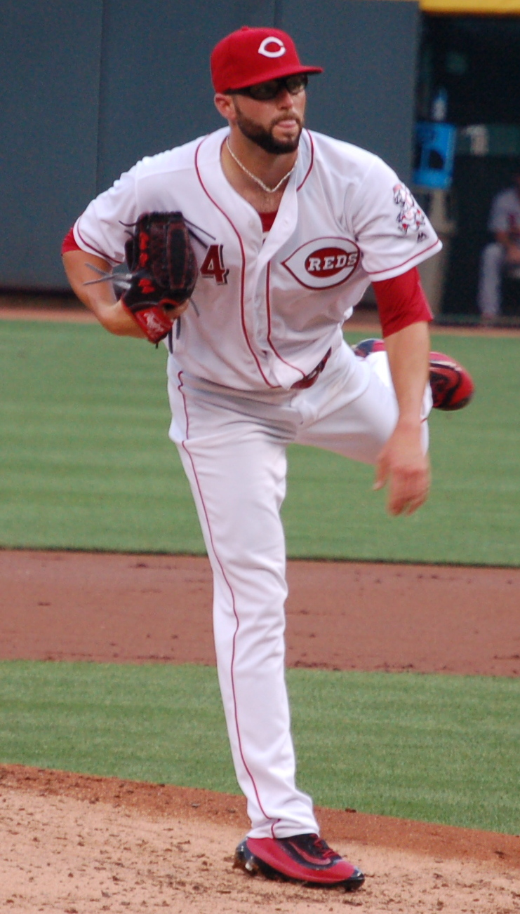 Cody Reed pitching. Taken during a game between the Cincinnati Reds and the St. Louis Cardinals on August 3, 2016 at Great American Ball Park in Cincinnati, USA.